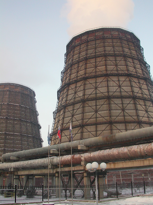 Novoirkutskaya electric station